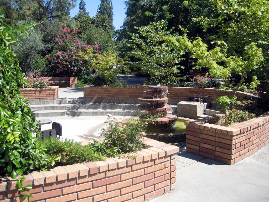 Campus, Fresno Pacific University, Fresno, California